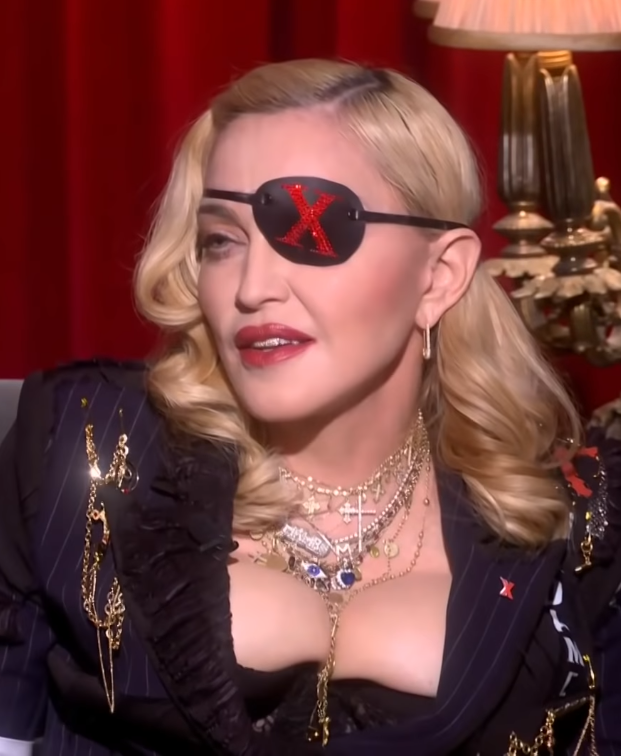 Madonna during the world premiere of her music video "Medellin" on MTV